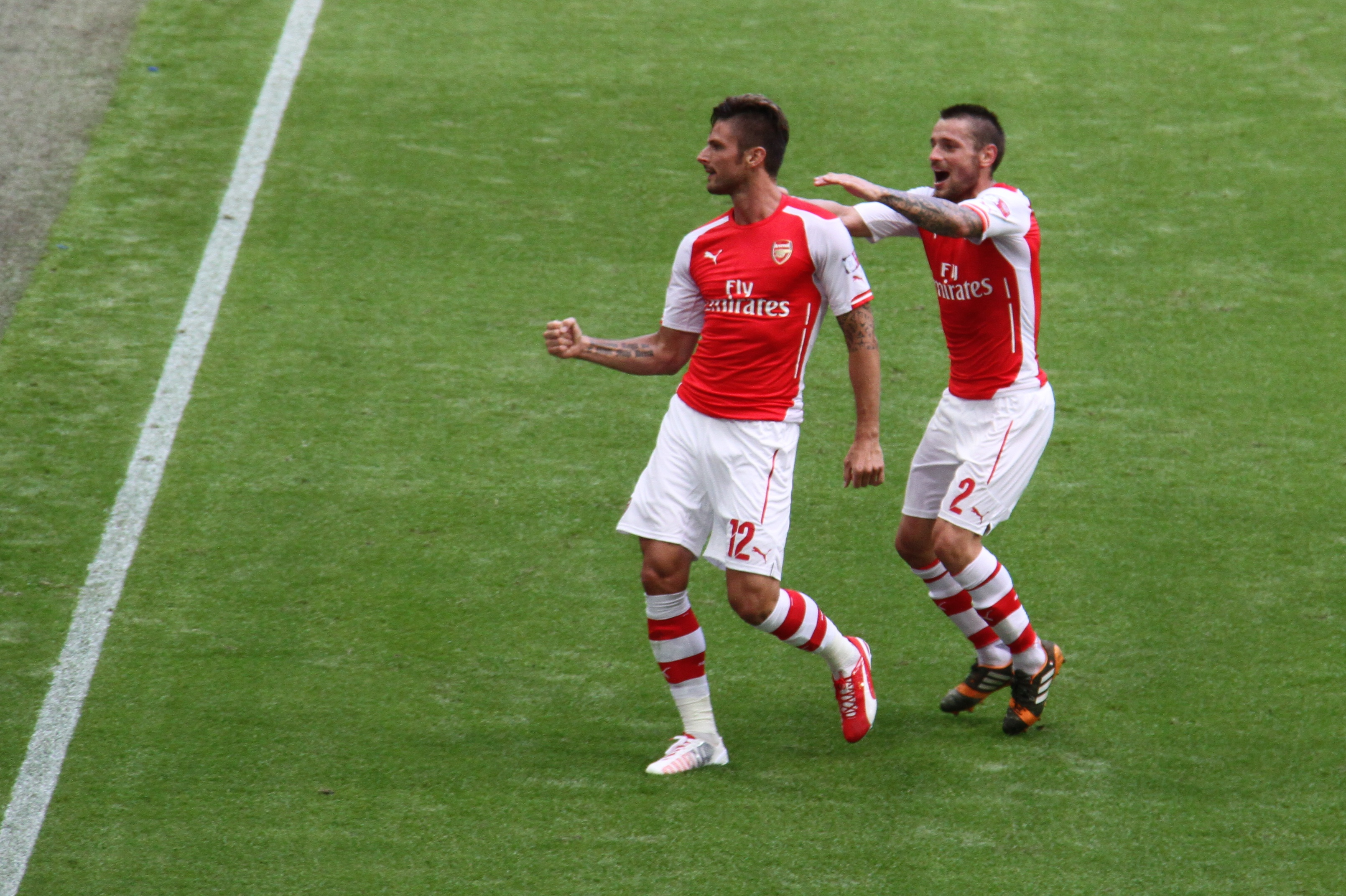 Community Shield 28 - Celebrating Giroud's goal